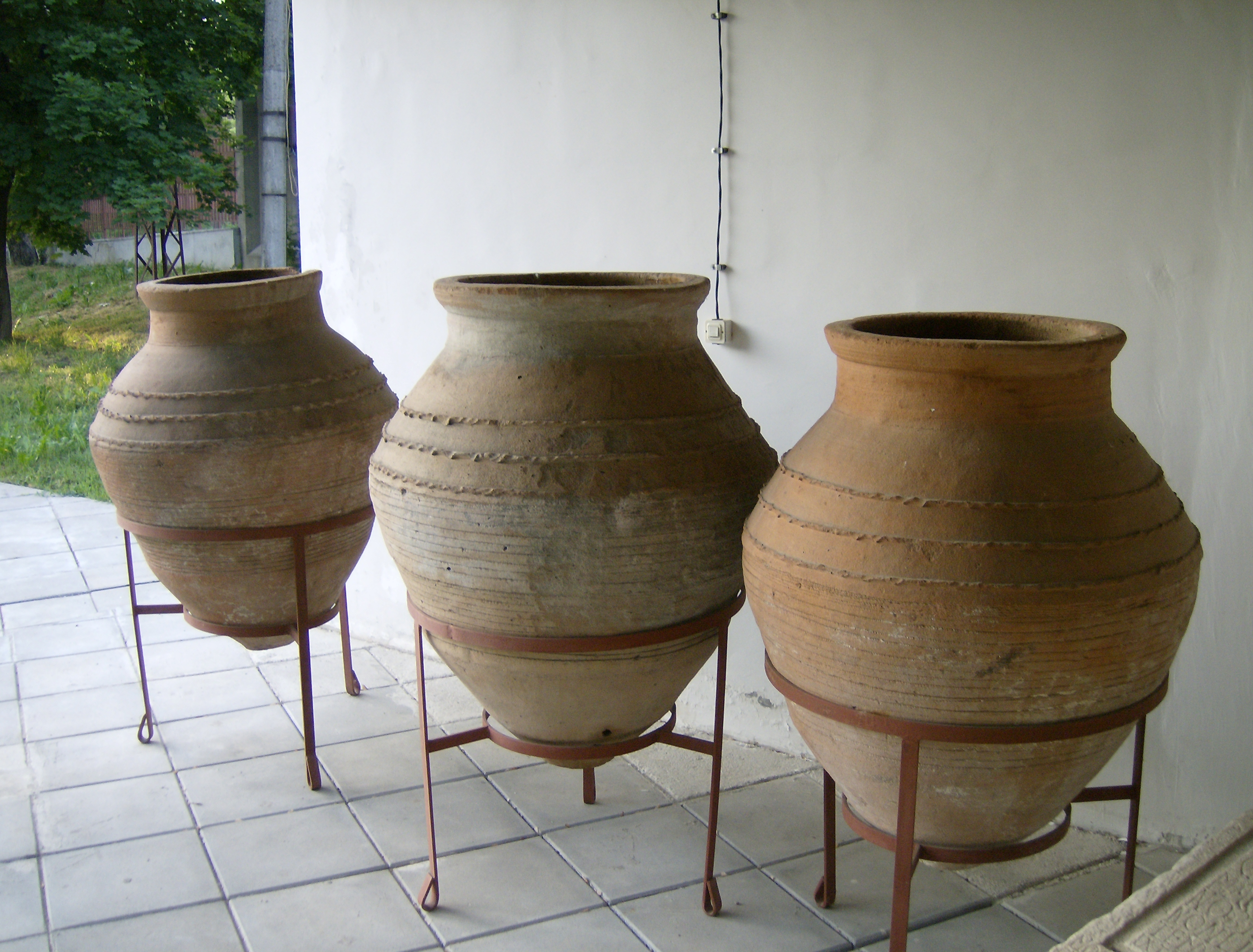 Abrittus